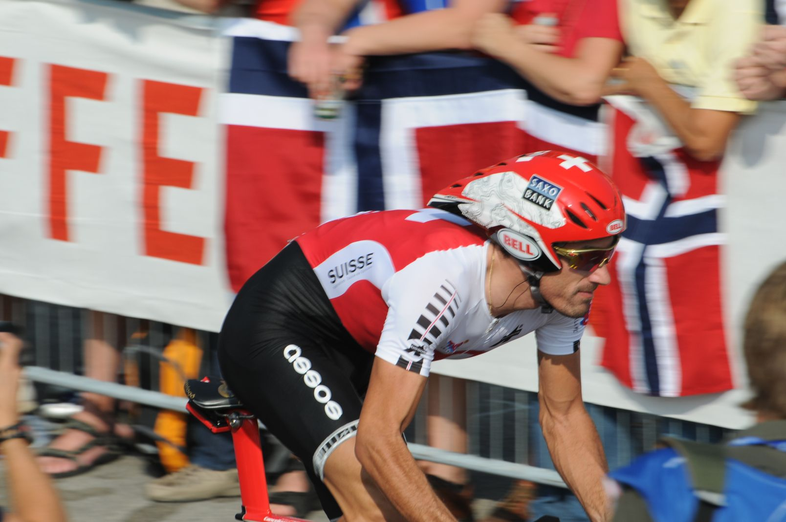 Fabian Cancellara at UCI World Championships in Mendrisio, Switzerland